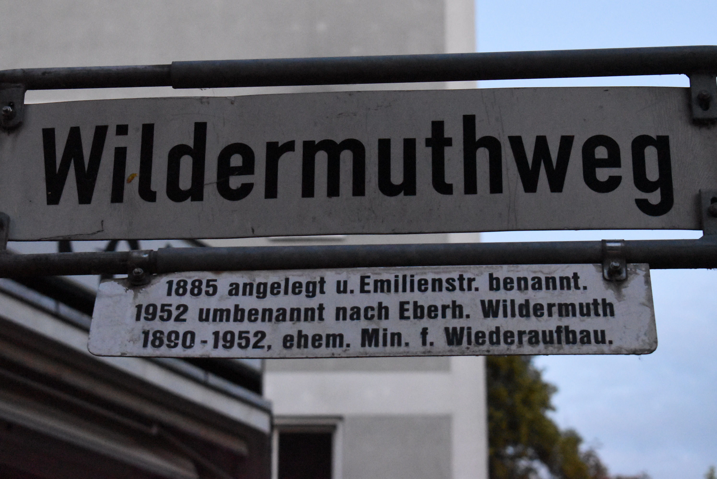 Street sign "Wildermuth lane" at the corner of Hildesheimer Street in Hannover and information plaquette saying „Layed out in 1885 and named Emilien Street. Renamed in 1952 after Eberh[hard] Wildermuth, 1890-1952, former [Federal] Minister for Housing.“